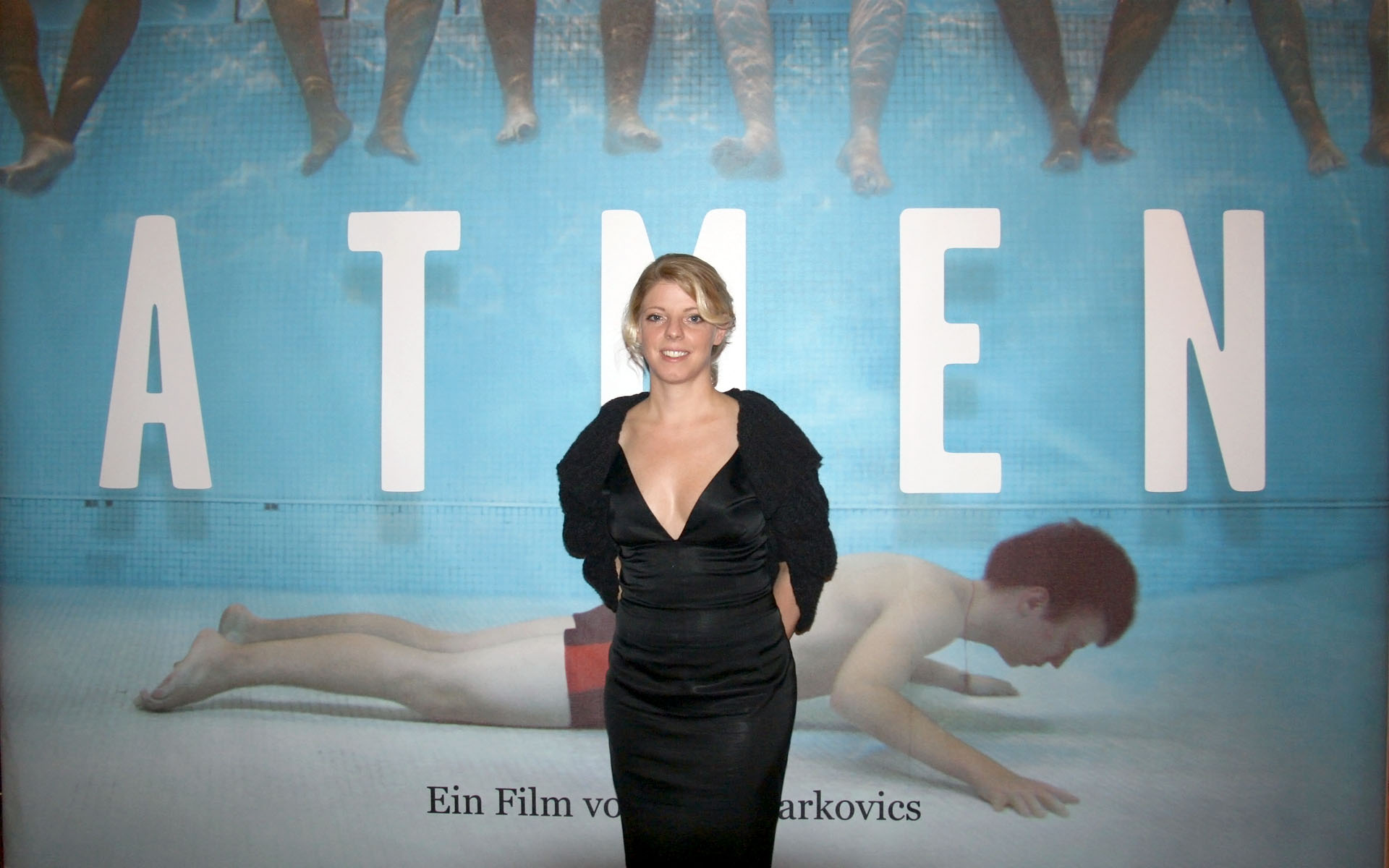 Leading actress Thomas Schubert at the Austrian premiere of Karl Markovics' movie Breathing at the Kursalon Hübner in Vienna.